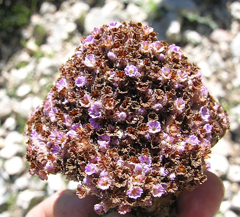 One of the species known as Pop-ups. A root parasite in Oaxaca Province, Mexico. In context at